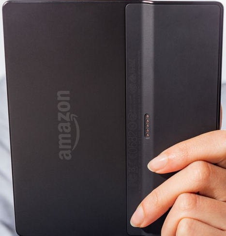 This shows the Kindle Oasis in its one-hand operation.